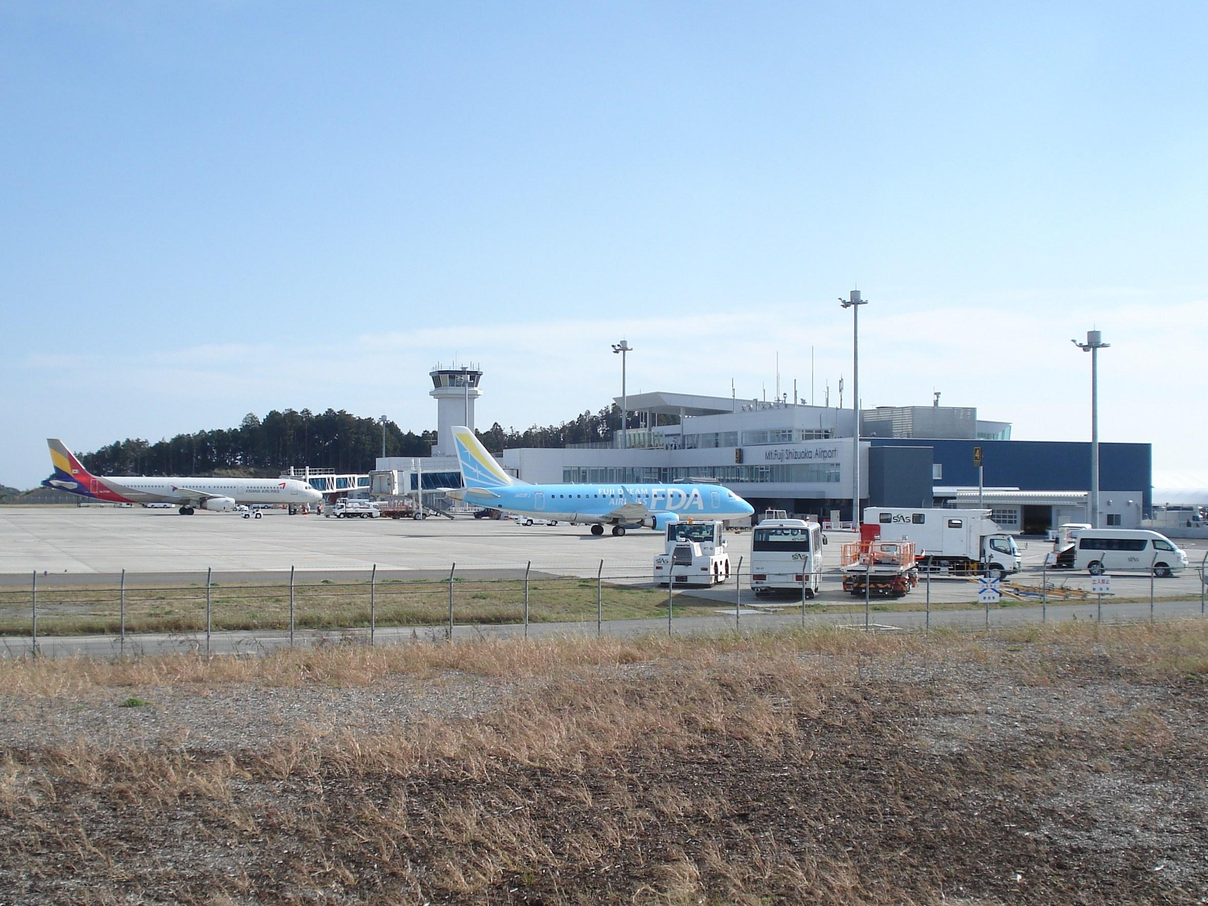 Mt.Fuji Shizuoka Airport